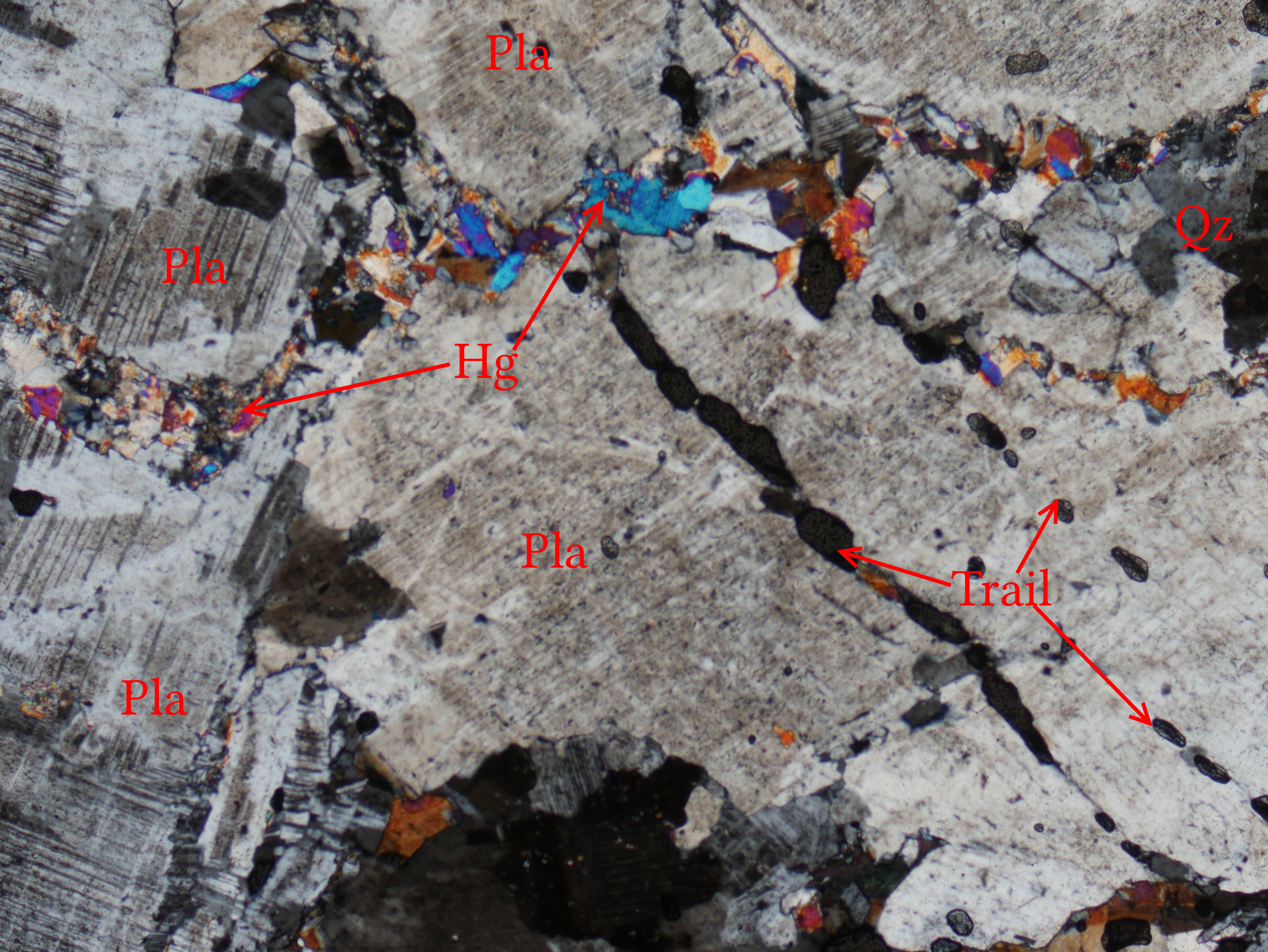 Thinsection of a pegmatite from Lofoten, North Norway. Width of image: 3.3 mm Albite-rich plagioclase: Pla Muscovite: Hg Quartz: Qz Trail: Fluid inclusions From Lundin, 2018, U-Pb-Datierung und petrologische Untersuchung eines Pegmatits von den Lofoten, Masterthesis